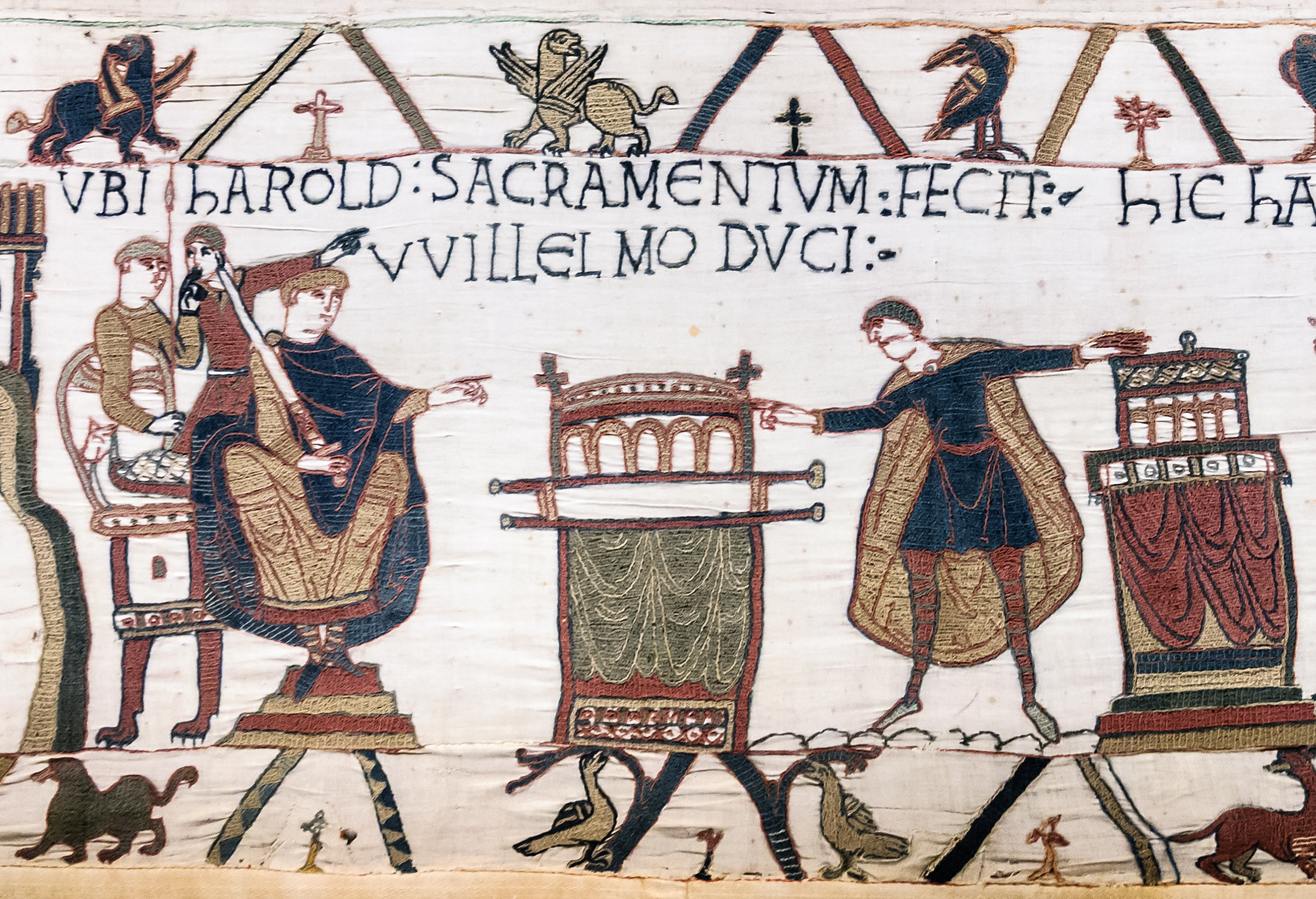 Bayeux Tapestry - Scene 23: Harold swearing oath on holy relics to William, Duke of Normandy. Titulus: UBI HAROLD SACRAMENTUM FECIT WILLELMO DUCI (Where Harold made an oath to Duke William)